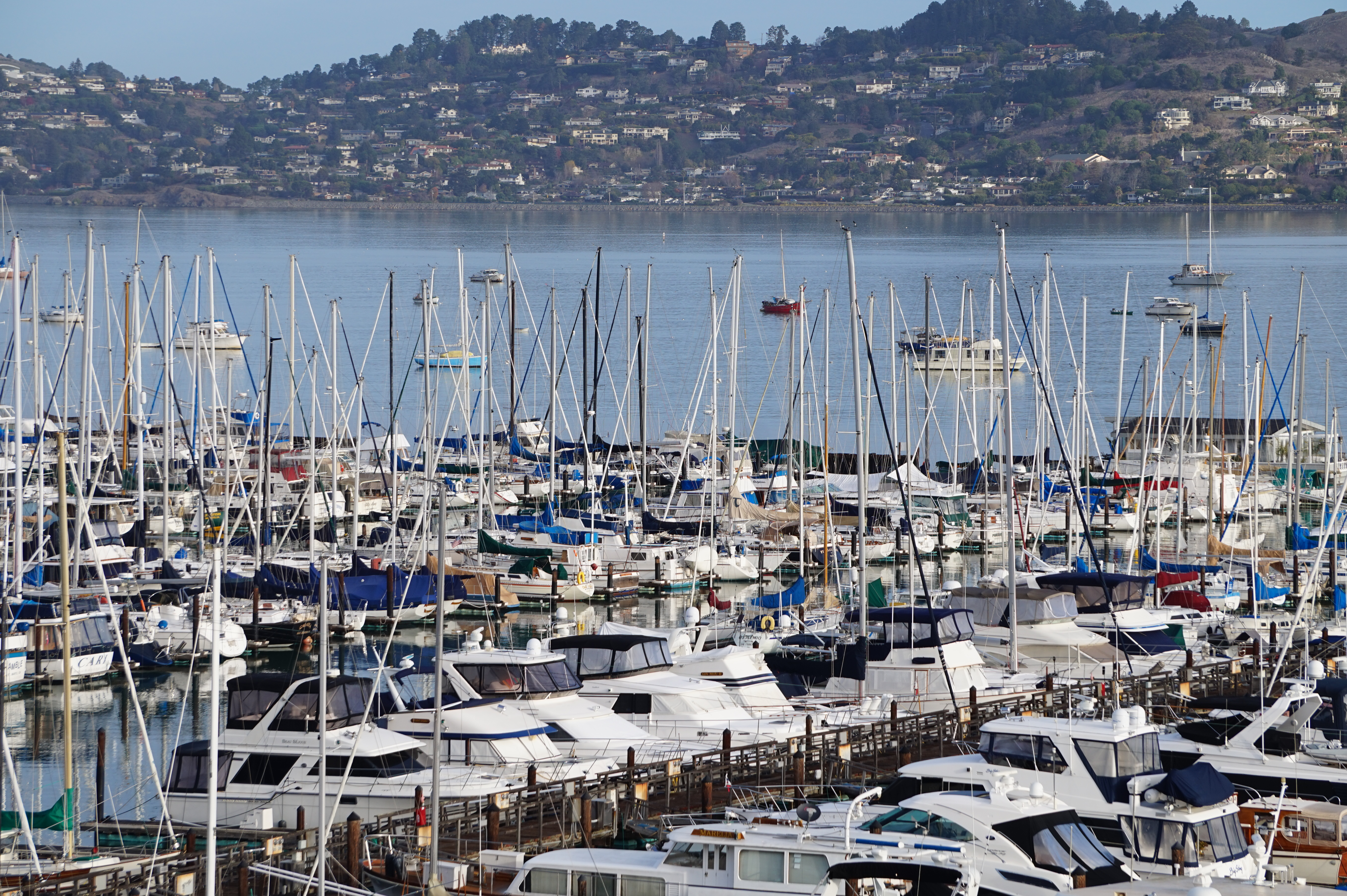 Yacht port in Sausalito, Marin County, California